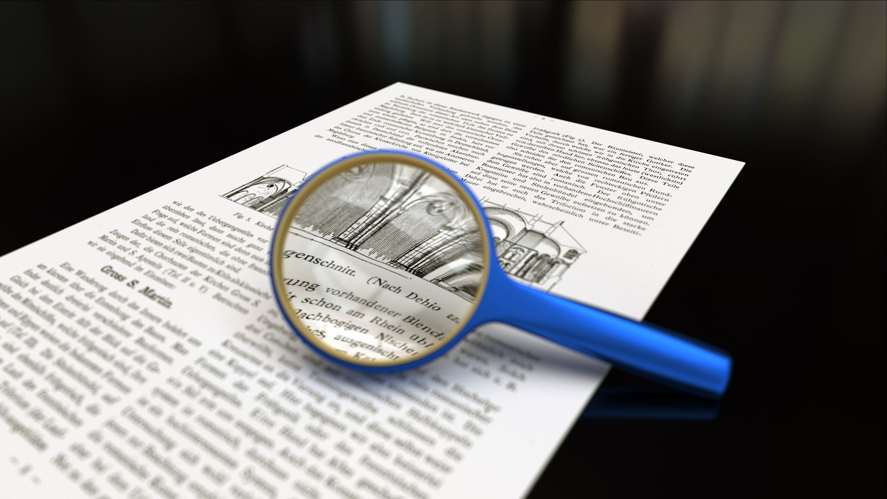 Magnifying glass with focus on paper. Text in the background is from the public domain work Die Baukunst, issue 11, page 8, written by Max Hasak. Rendered with a development version of Cycles in Blender.